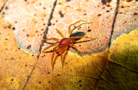 Male of Nops guanabacoae from Cuba